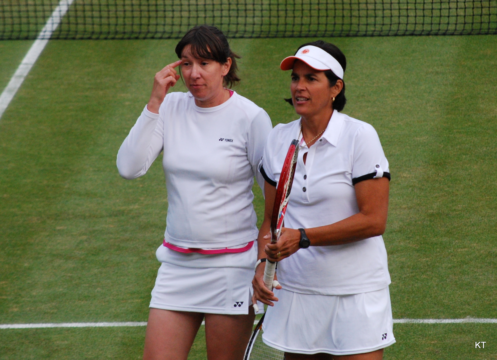 Ladies Invitation Doubles. Lindsay Davenport & Martina Hingis defeated Natasha Zvereva (left) & Gigi Fernandez (right) 6-2 6-2, and went on to win the title. Day 9 of Wimbledon 2011.